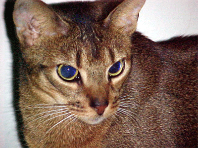 A purebred abyssinian cat (named Raja)